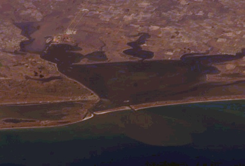 Image of Matagorda Bay from space